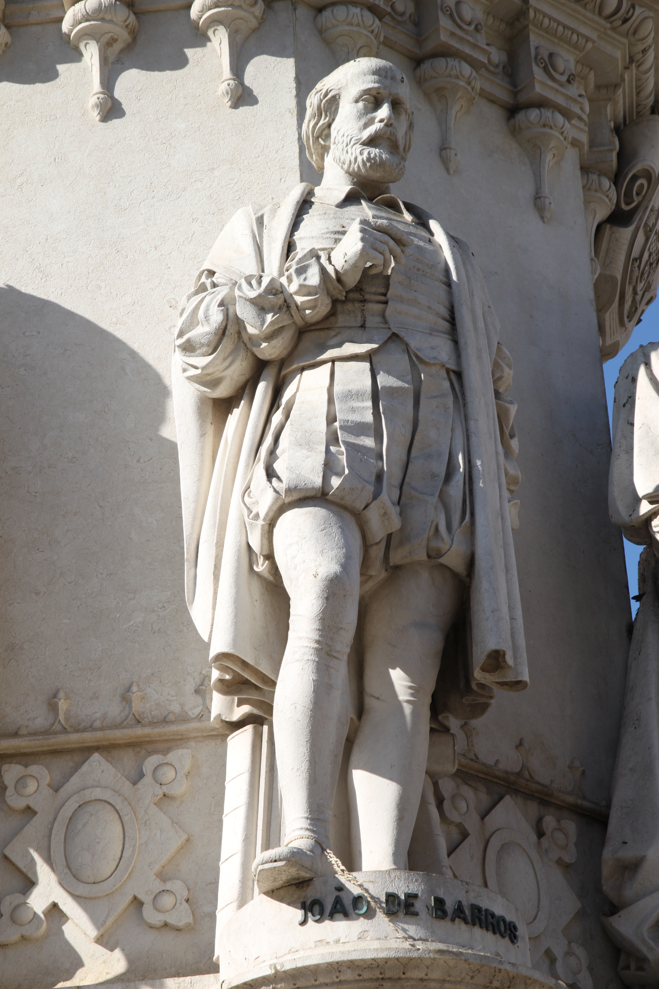 This file was uploaded for Wiki Loves Monuments in Portugal with the unique identifier 97028265.